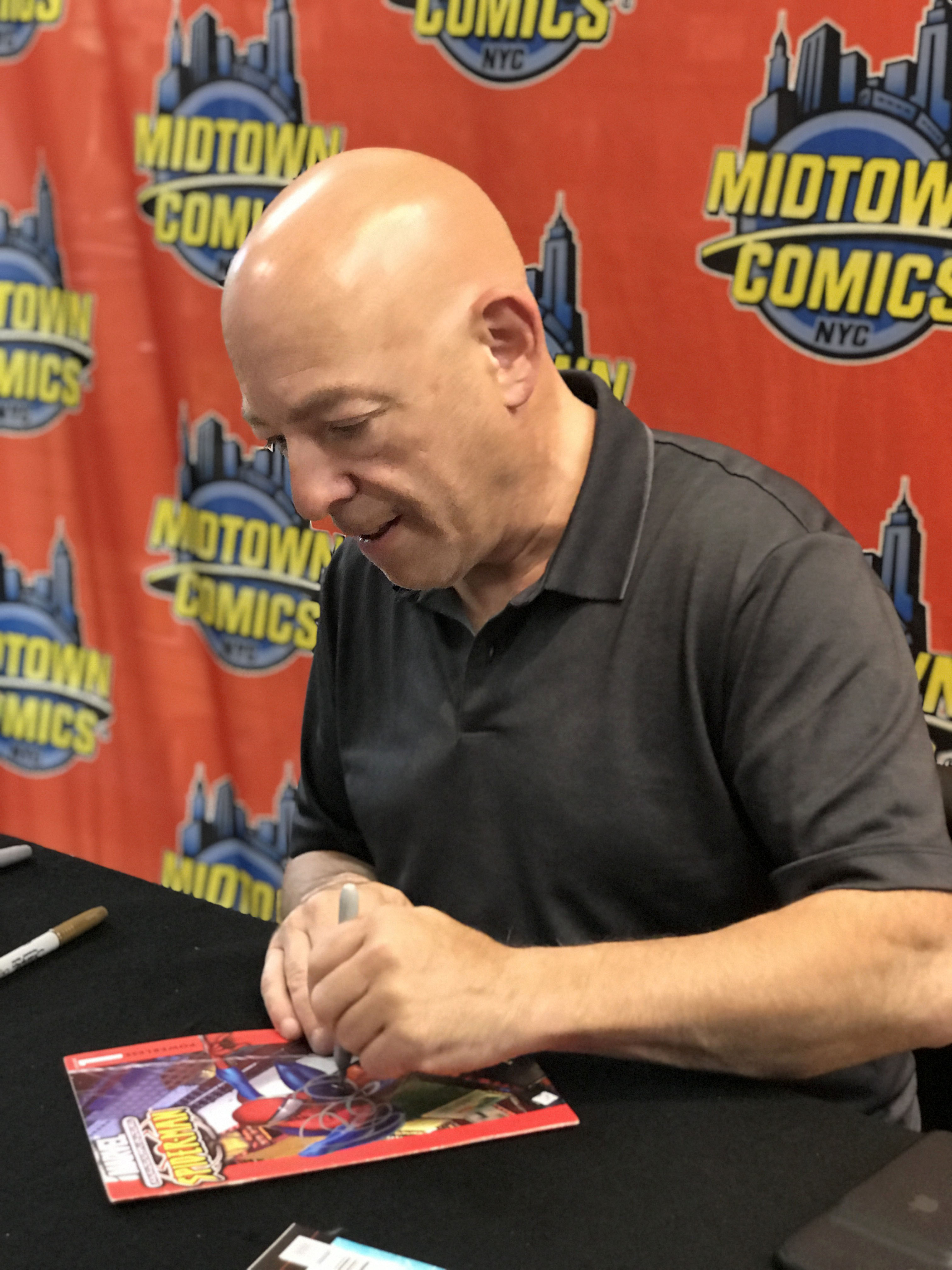 Comics writer Brian Michael Bendis at a July 24, 2019 open book signing at Midtown Comics Downtown in Lower Manhattan. In the photo, Bendis is signing a copy of the first-ever issue of Ultimate Spider-Man. This photo was created by Luigi Novi. It is not in the public domain, and use of this file outside of the licensing terms is a copyright violation.